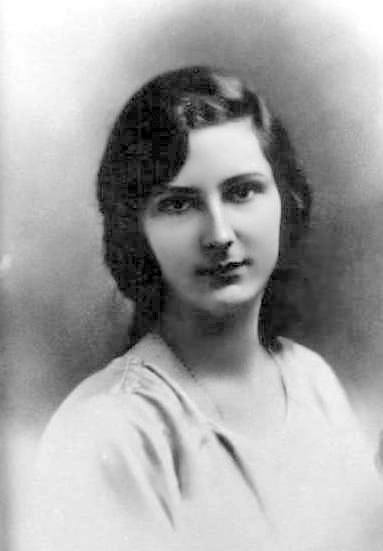 Princess Joanna of Savoy and Italy, Queen Consort of Bulgaria